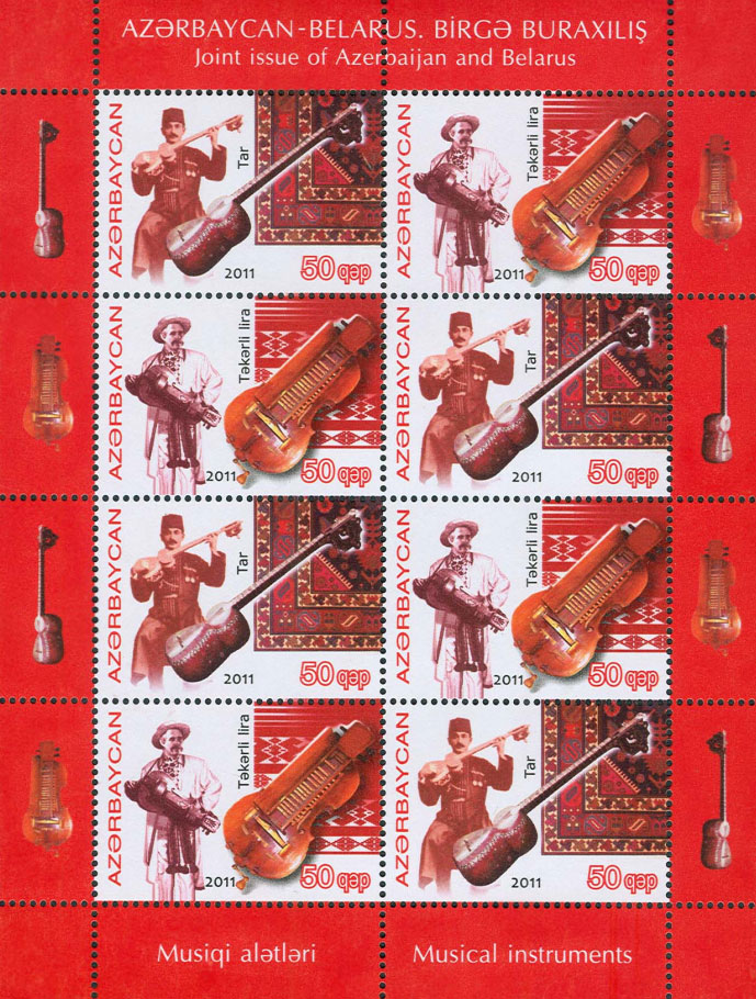 Joint issue of Azerbaijan and Belarus. Musical instruments.